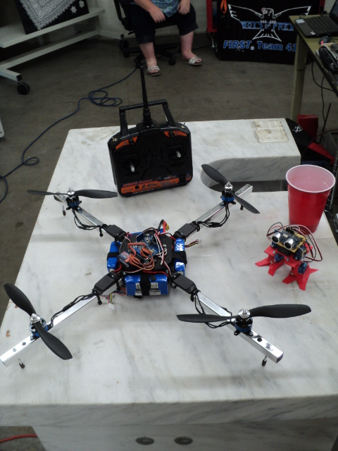 A Maker Faire quadrotor in Garden City, Idaho.